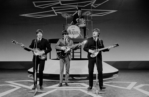 Paul McCartney, George Harrison, Jimmy Nicol, John Lennon